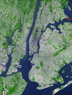 Throgs Neck is shown in red in the Bronx in New York City. Based on satellite photo courtesy NASA. © 2004 Matthew Trump.